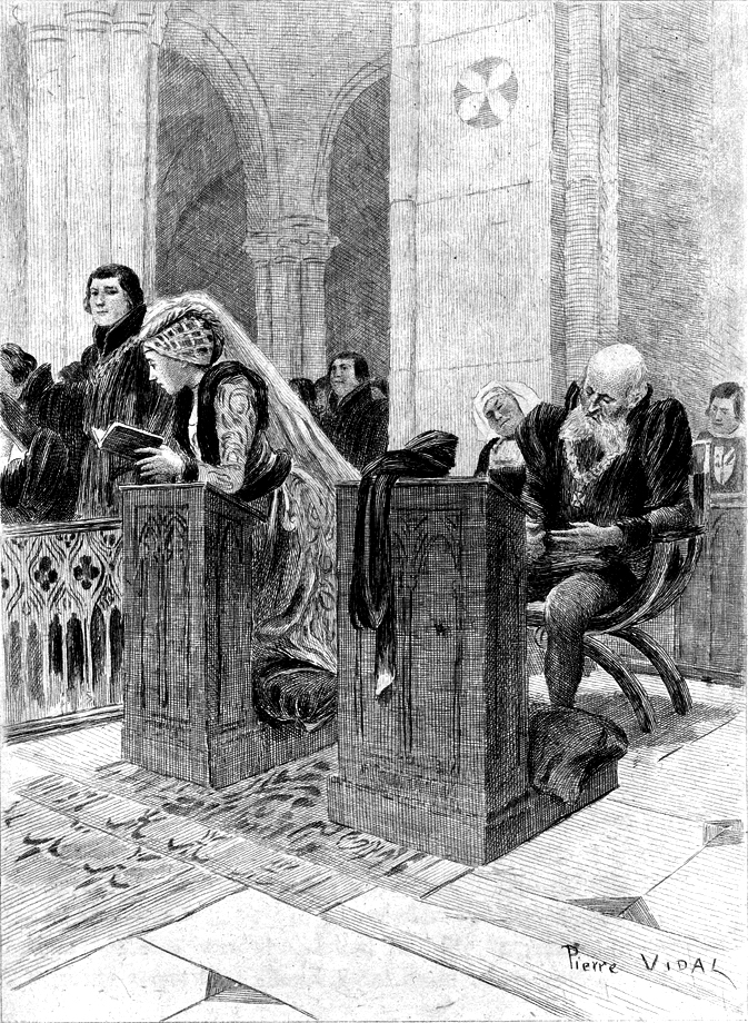 Illustration of Honoré de Balzac's Master Cornelius (1832).